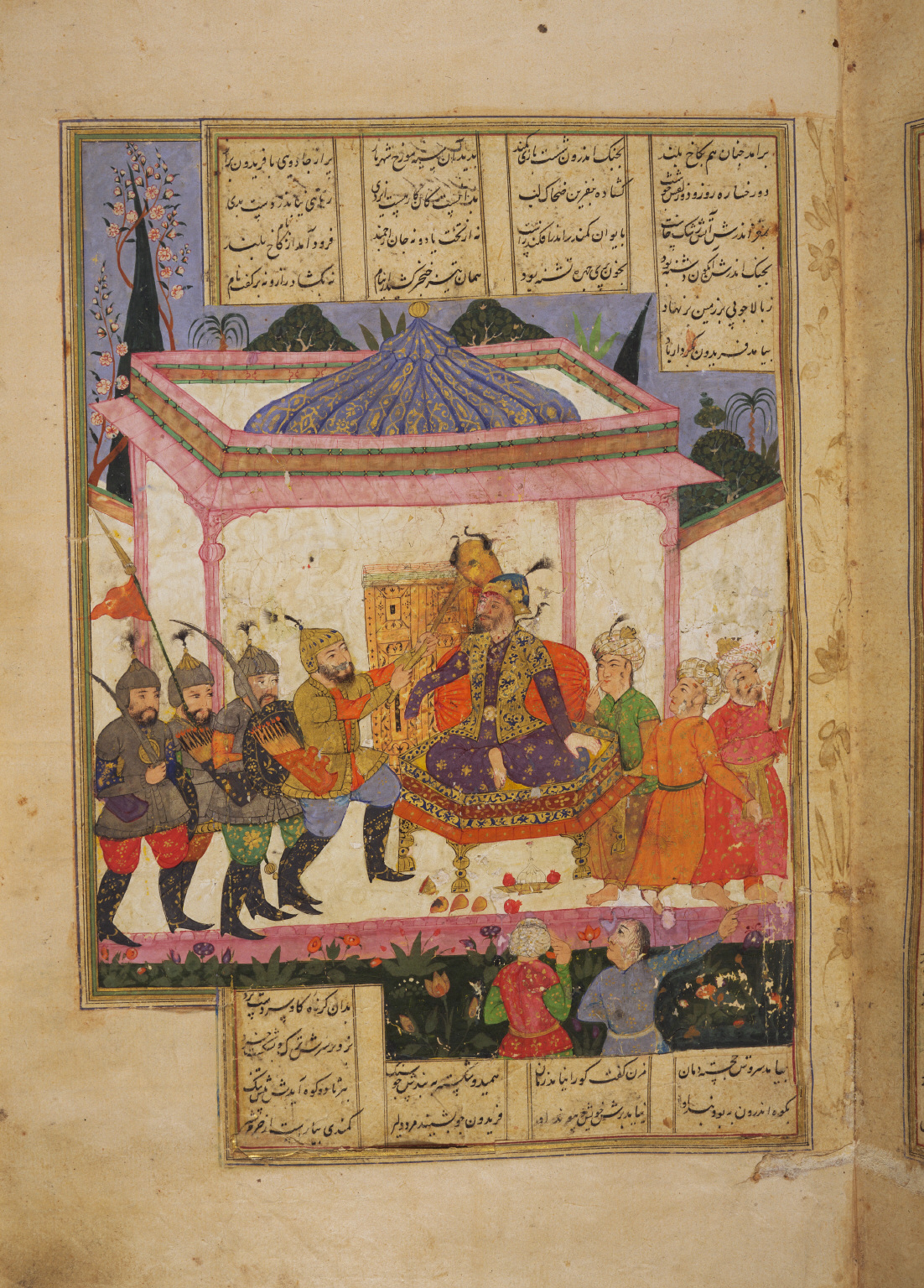 Illumination from the Shahnameh manuscript Princeton Ms. 59 G, Folio 13, recto